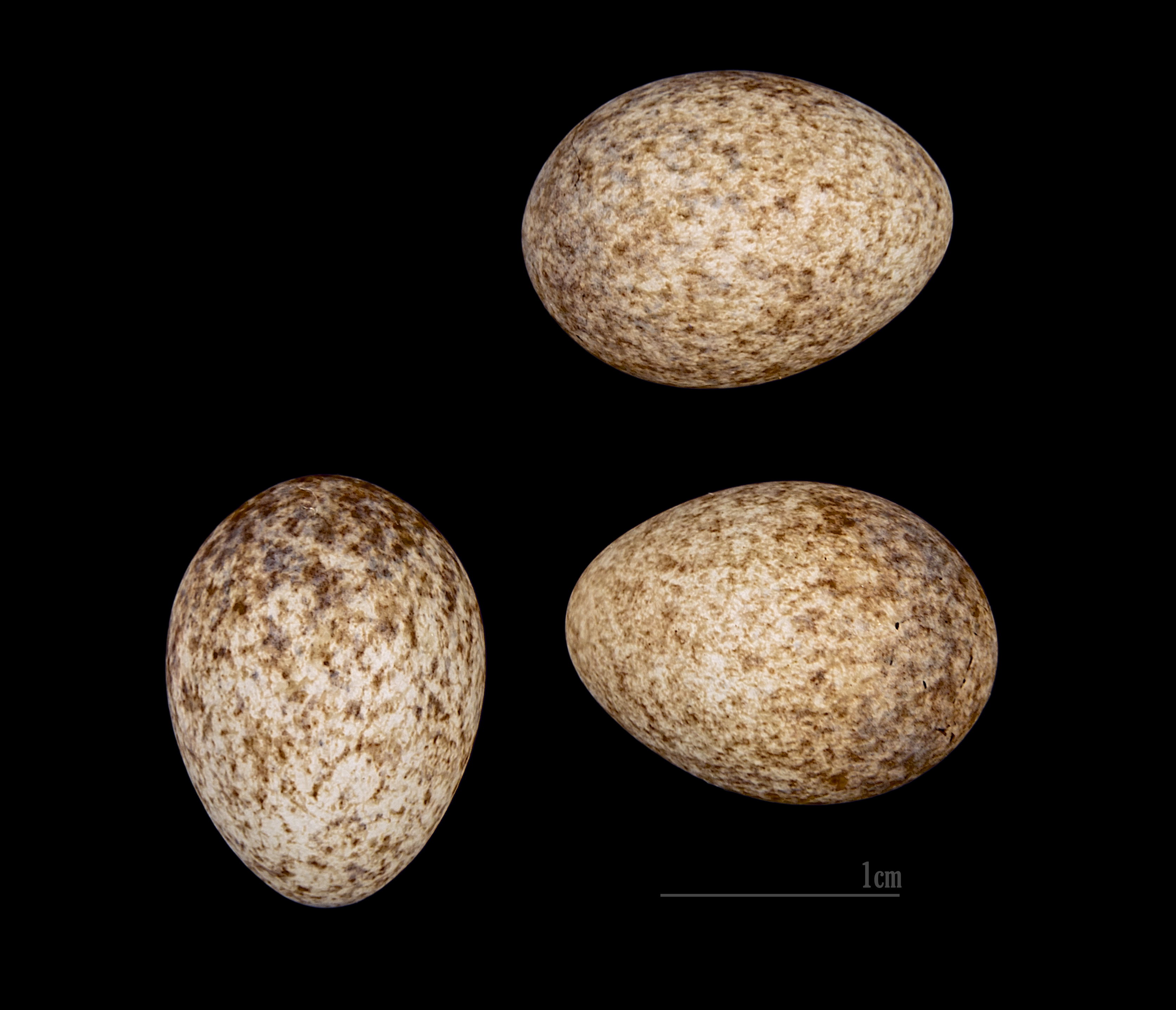 Egg of Spectacled Warbler. Collection of Jacques Perrin de Brichambaut.